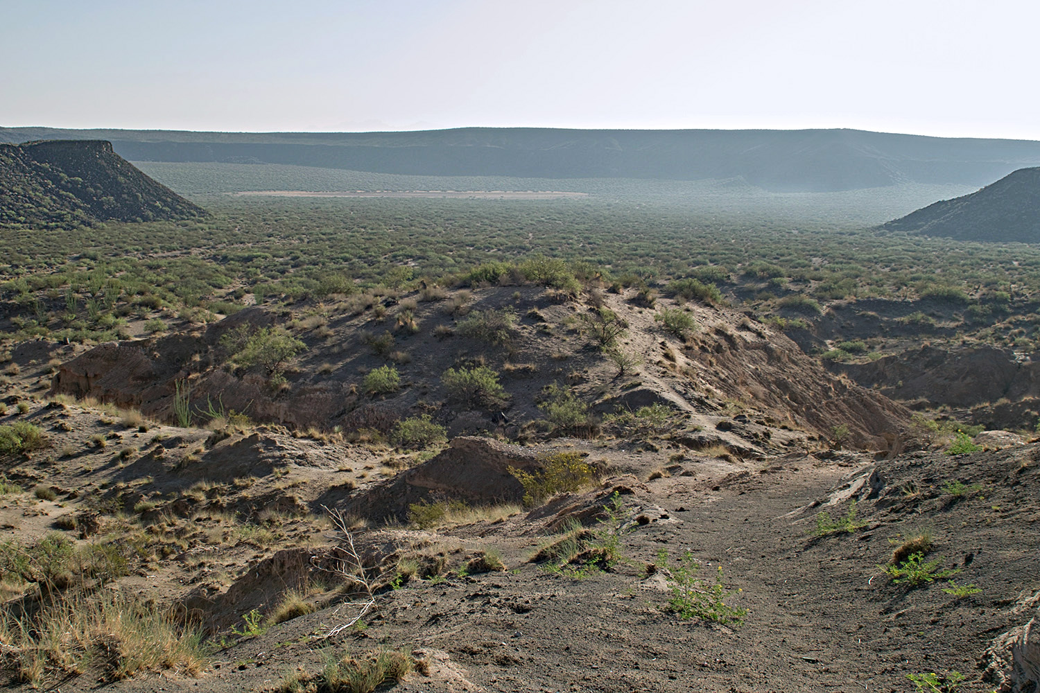 View of the trail into the Kilbourne Hole from the extreme southwest corner, 7:30 AM July 29, 2012